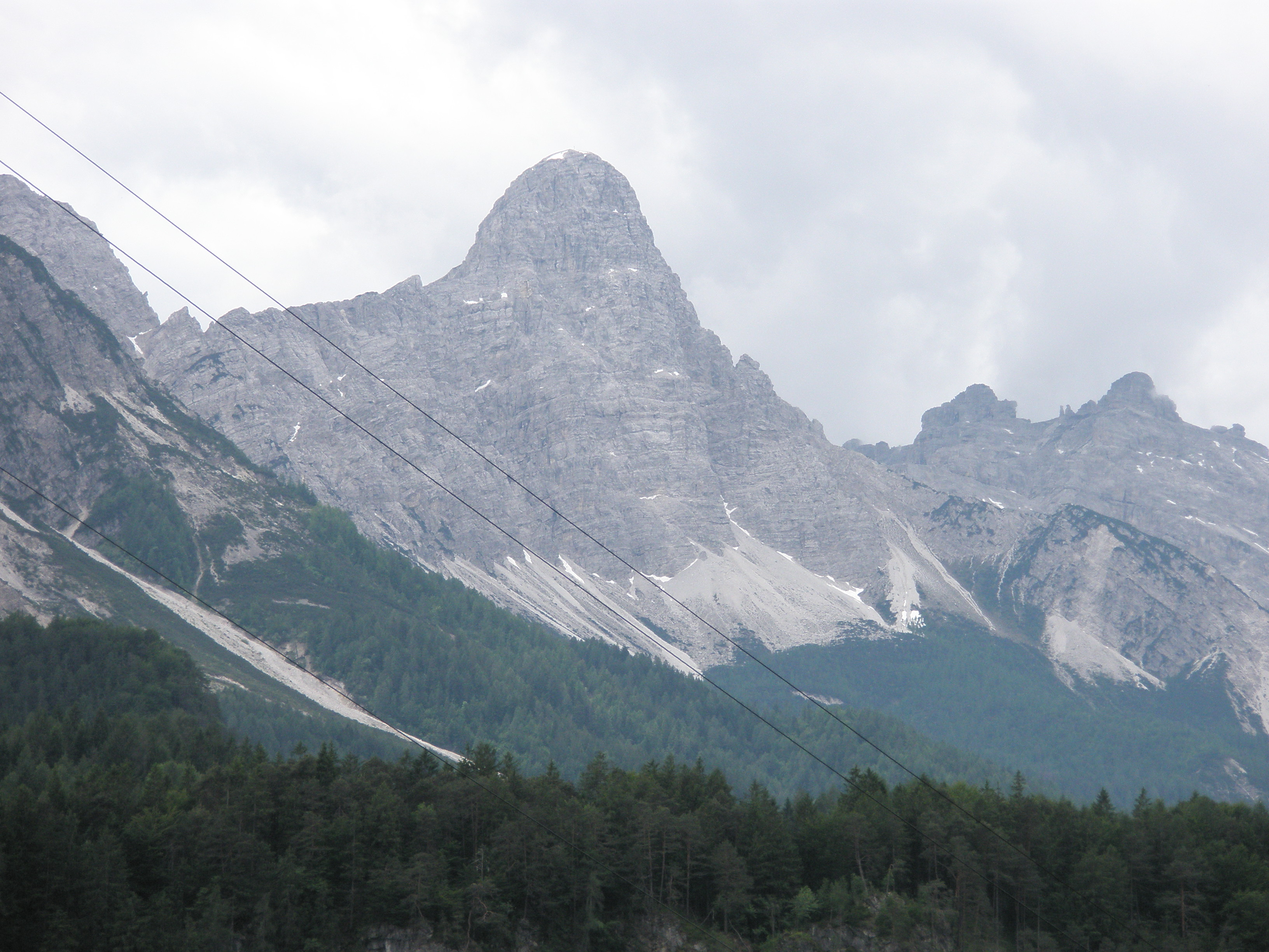 Sassolungo di Cibiana 2413m